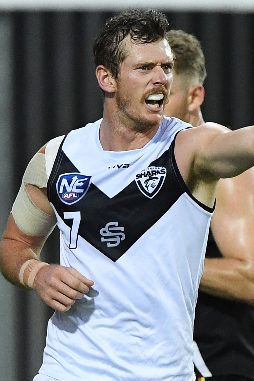 Ryan Davis of Southport during the 2018 NEAFL round 20 match between NT Thunder and Southport at TIO Stadium on 18 August 2018 in Darwin, Northern Territory.